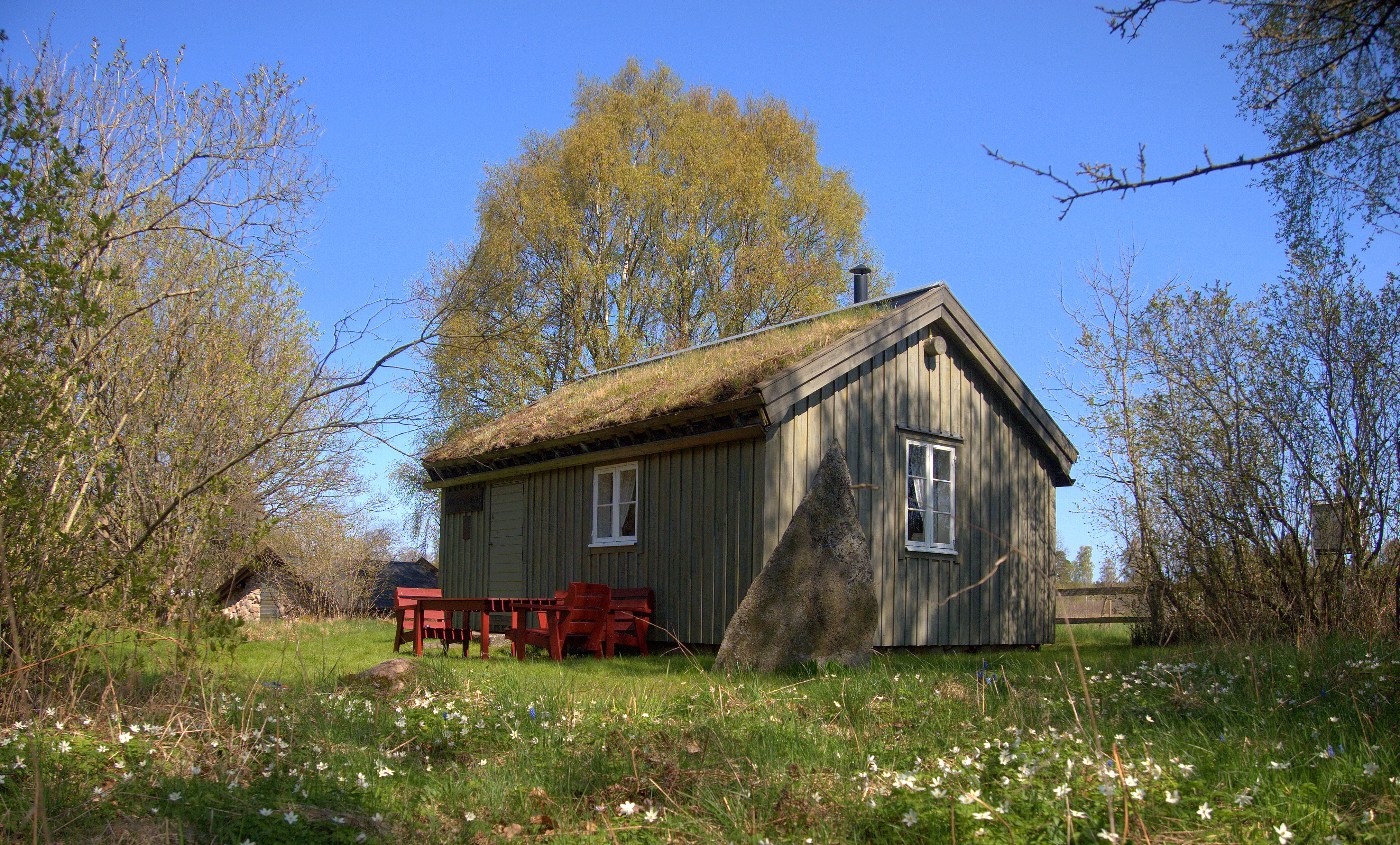 Ragnar Jändels Birthplace on Jämjö